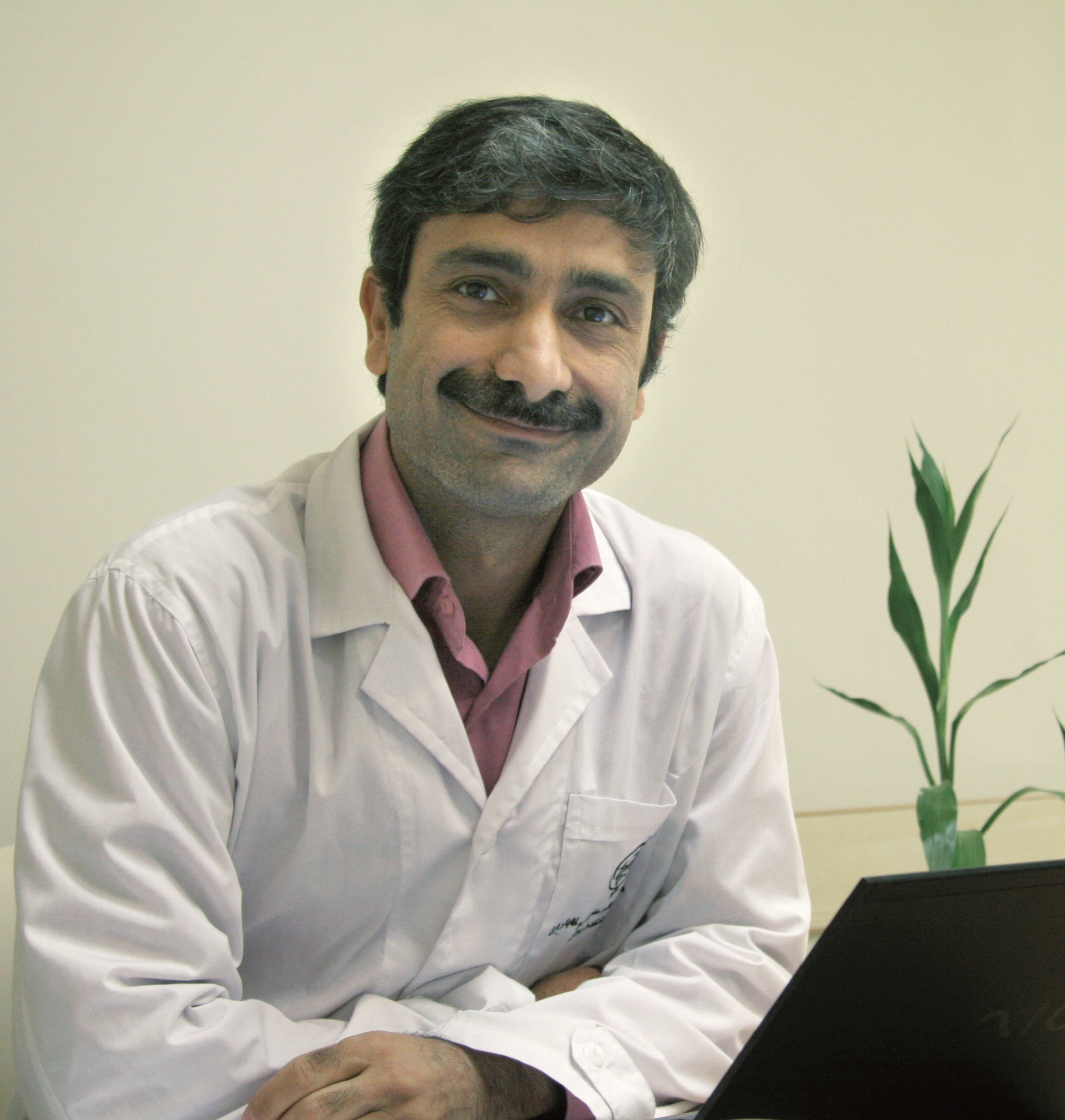 Prof. Hossein Baharvand